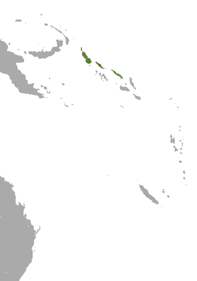 Lesser Flying Fox (Pteropus mahaganus) range